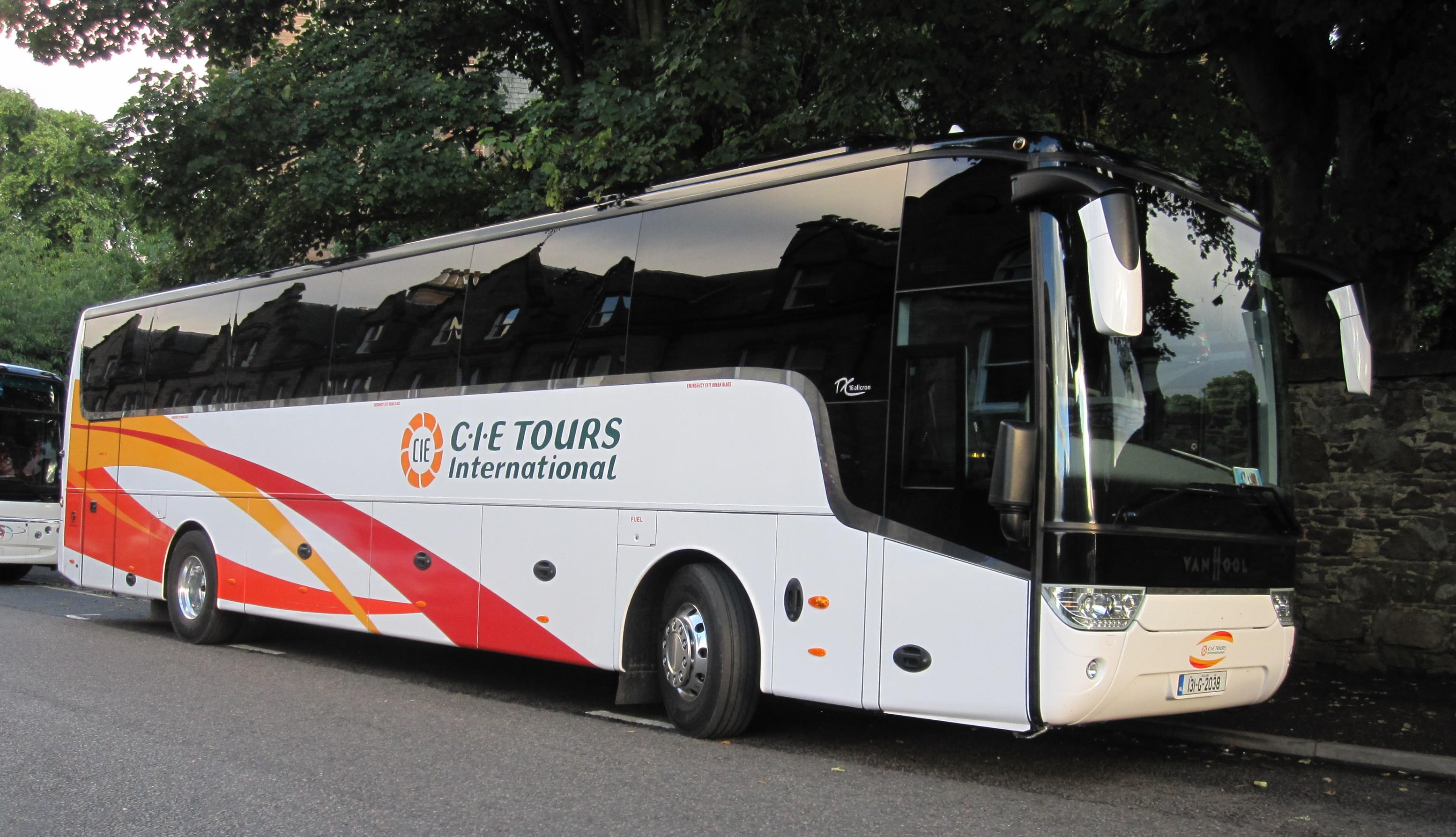 A coach of the Irish operator CIE Tours (reg. 131-G-2038), seen here in Inverness, Scotland.